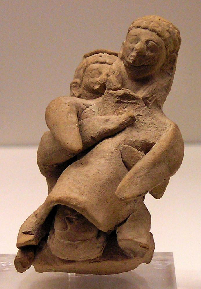 Birthgiving scene. Terracotta, early 5th century BC. From Cyprus. National Archaeological Museum in Athens, 12205.